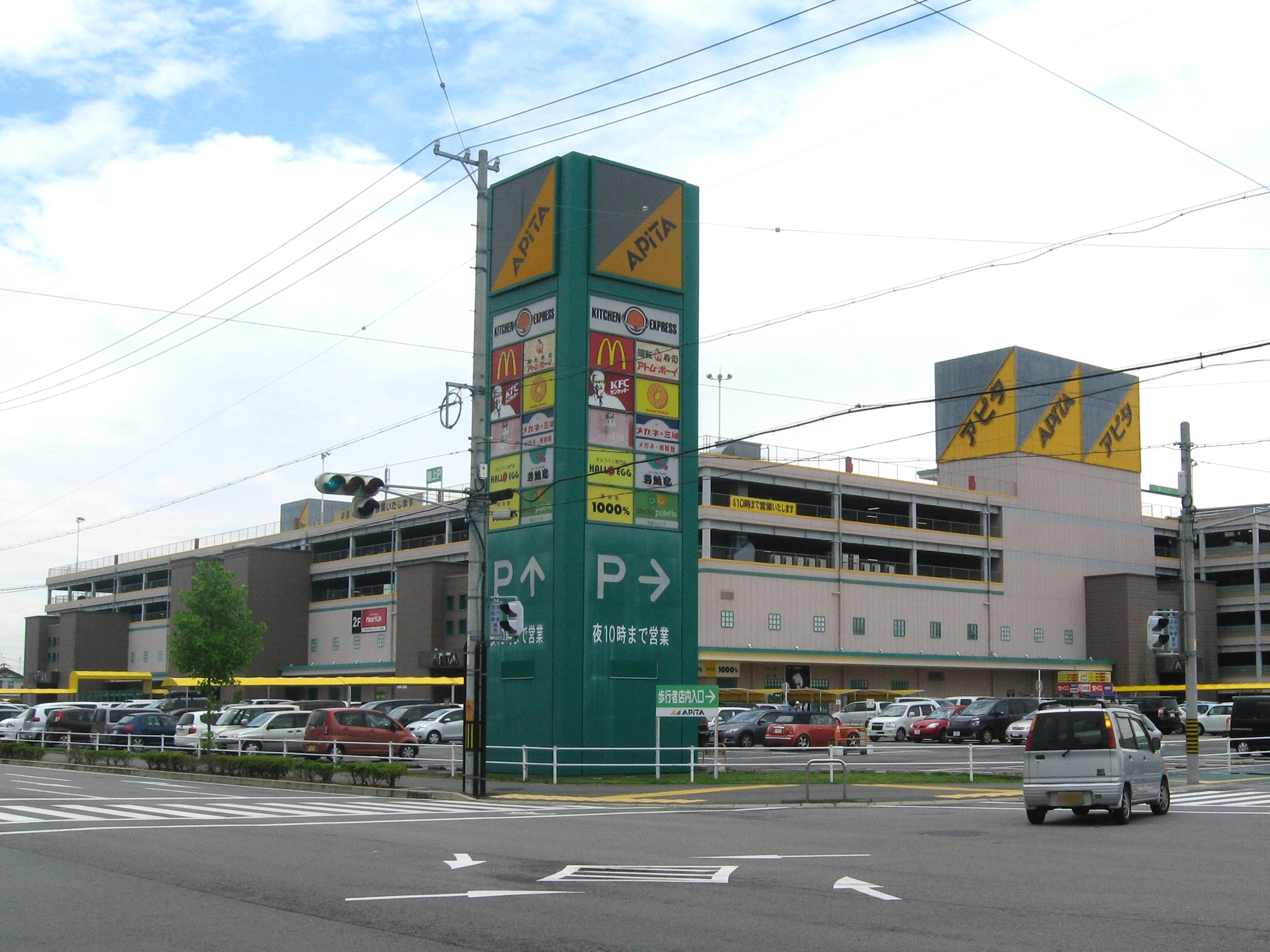 APITA Okazaki-kita Shopping Center in Okazaki, Aichi, Japan